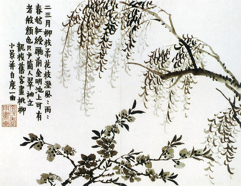 Willow Tree, painting and calligraphy in ink by Jin Nong. 24.9 x 31.7 cm, Tianjin Municipal Art Museum.